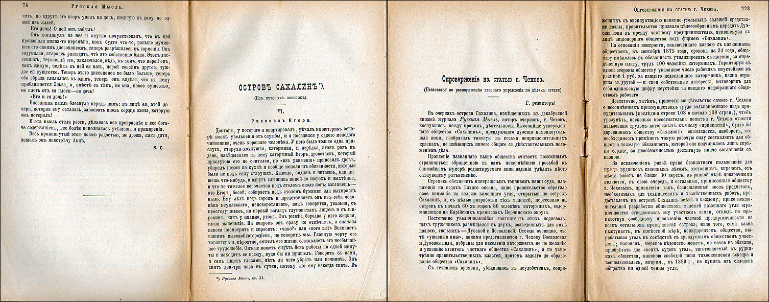 «The Island of Sakhalin», a work of social science by Anton Chekhov